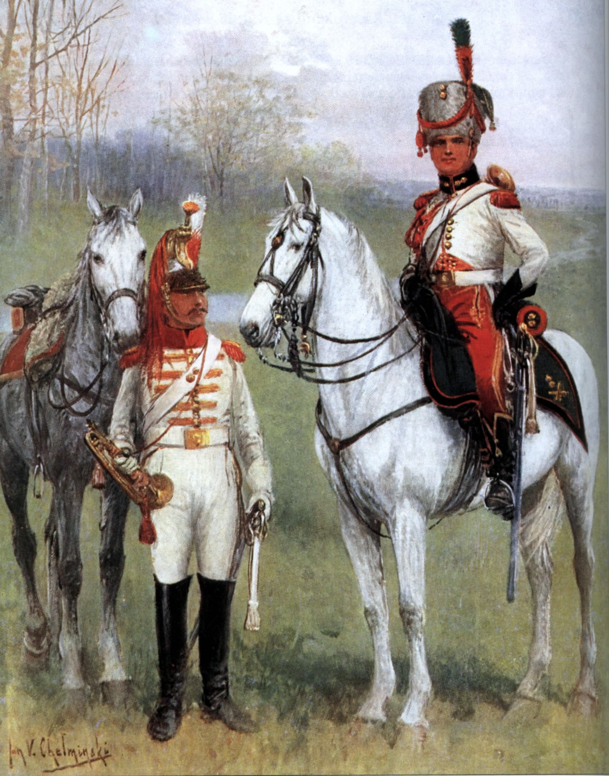 Trumpeters of Cuirassiers and Horse Artilery of Duchy of Warsaw